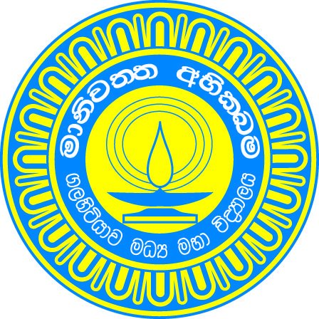 This is the emblem of Galahitiyawa Central College, Ganemulla, Sri Lanka. "Maniwatta Abhikkama (මානිවතත අභික්ඛම)" is written on it in Sinhala language which is Pali for "Stop not, Go forward"